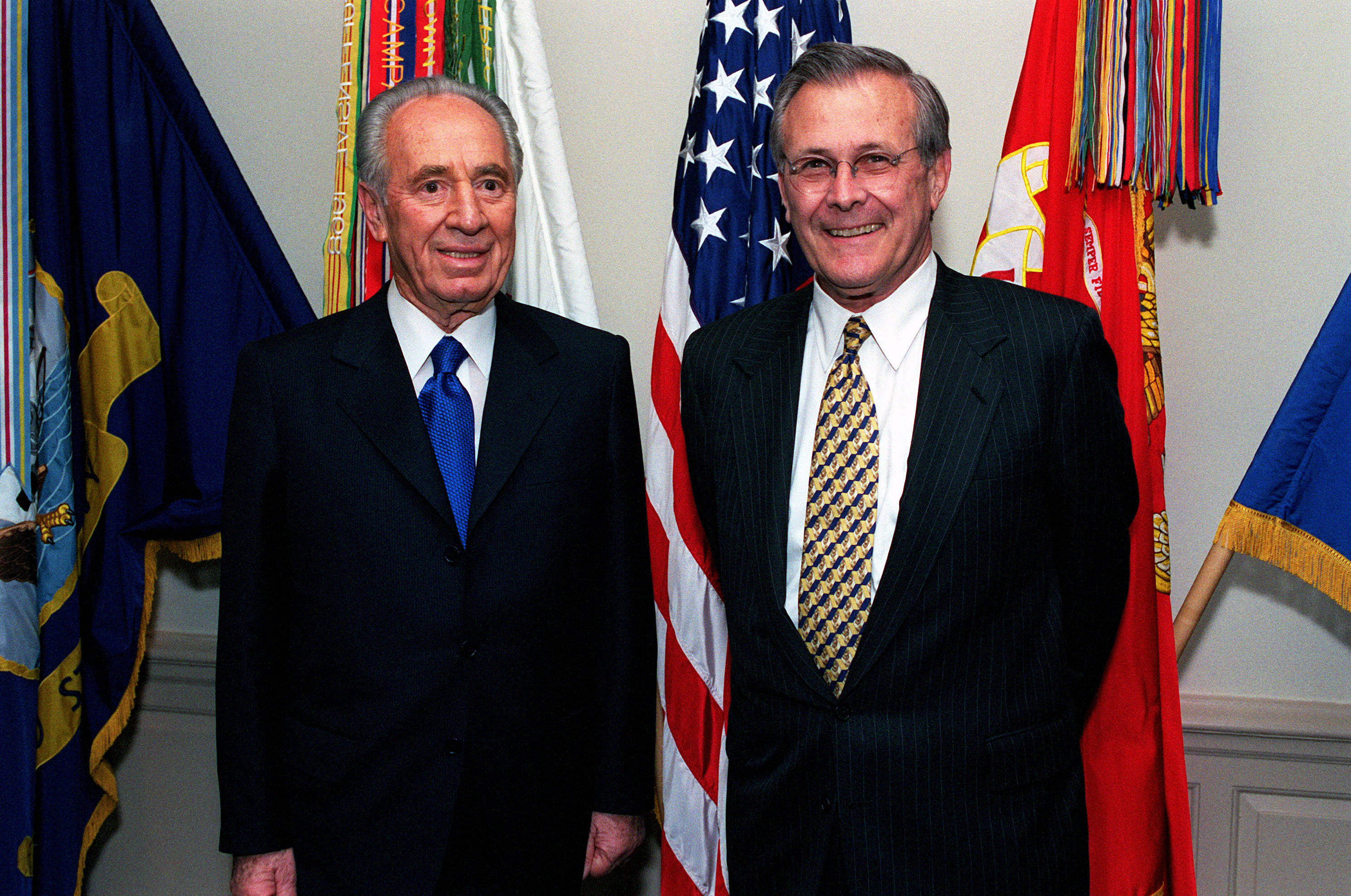 Israeli Foreign Minister Shimon Peres (left) poses with The Honorable Donald H. Rumsfeld (right), U.S. Secretary of Defense, at the Pentagon, Washington D.C., on May 3, 2001.(Department of Defense official photo by Robert D. Ward) (Released) Location: PENTAGON, DISTRICT OF COLUMBIA (DC) UNITED STATES OF AMERICA (USA)